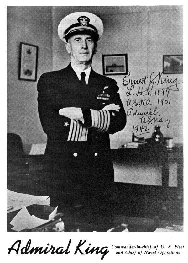 This is a promotional picture of Admiral Ernest King which was autographed.